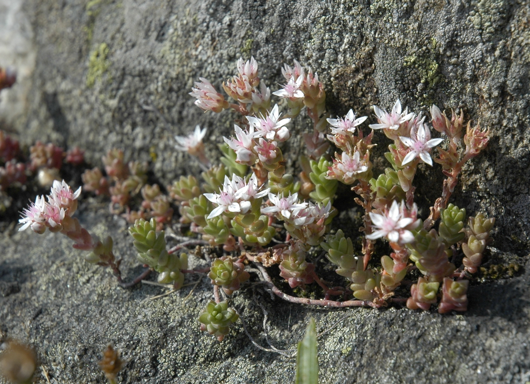 Sedum anglicum by the coast in Norway (Lillesand)